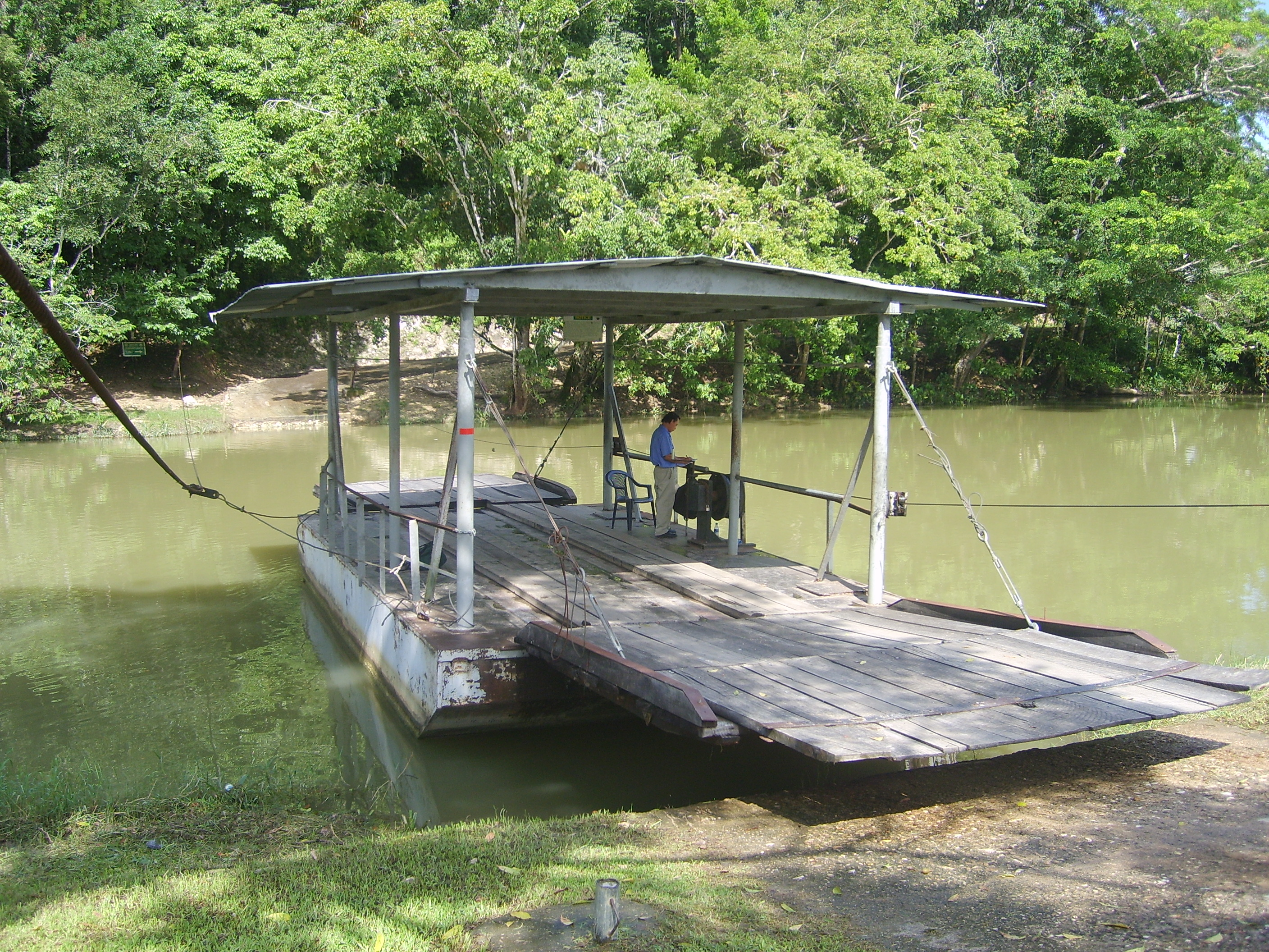 A ferry for carrying tourists across the Mopan River to Xunantunich archaeological site in Belize